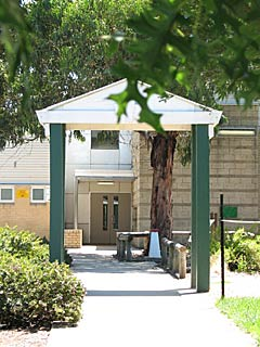 Westgarth Primary School entrance